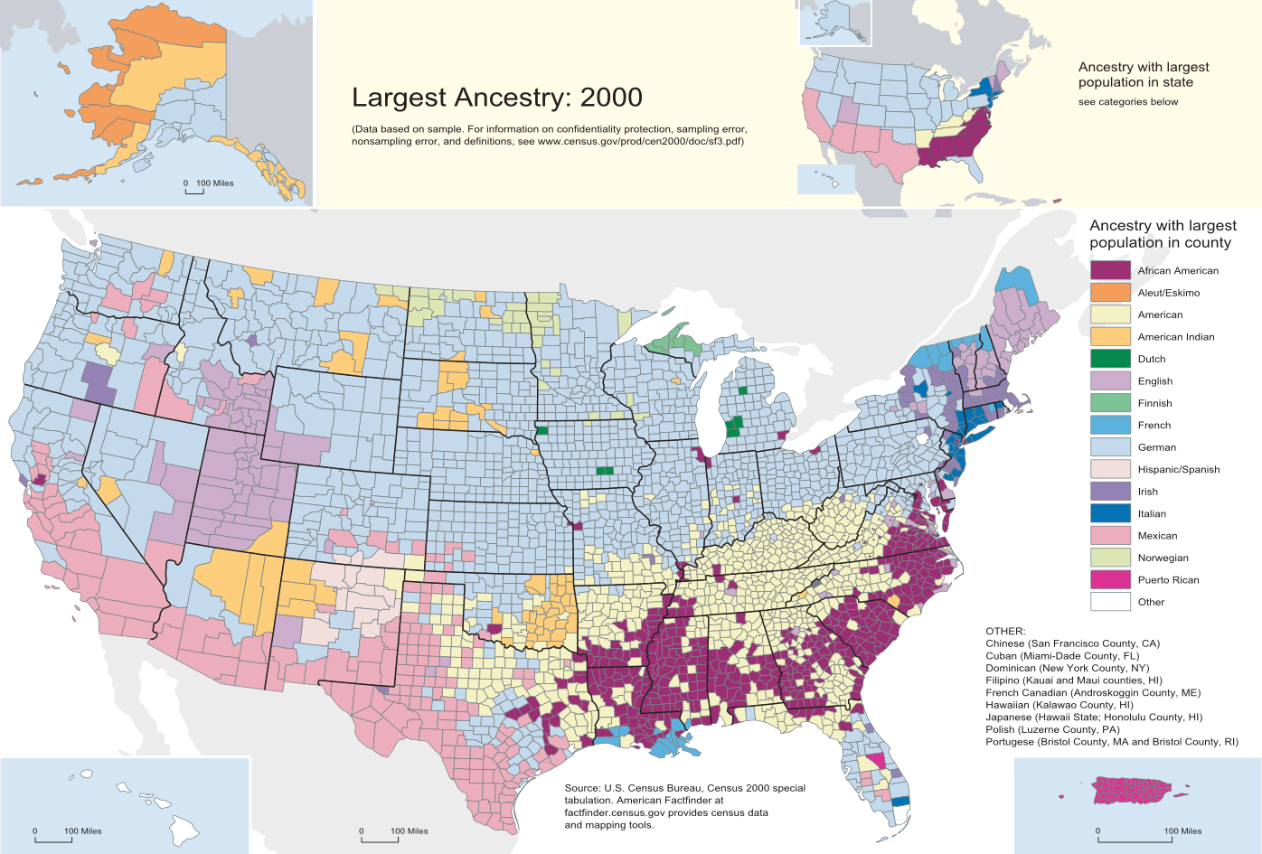 A chart of the top reported ancestries in the US, as provided by the 2000 census. Shaded color represents the largest number of respondents (a plurality) from sample. Areas with the largest "American" ancestry populations were mostly settled by English, French, Welsh, Scottish and Irish. (Above explanatory text originally by users Quasipalm and W.marsh.) Based on page 8 of , processed with pstoedit, skconvert and Inkscape. Intended to replace other versions like *Image:Census-2000-Data-Top-US-Ancestries-by-County.jpg *Image:Census-2000-Data-Top-US-Ancestries-by-County.png Also, these derived images should be replaced by new versions derived from this one: *Image:Census-2000-Data-Top-US-Ancestries-by-County-german.jpg *Image:Image-Census-2000-Data-Top-US-Ancestries-by-County fr_FR.png *Image:Census-2000-Data-Top-US-Ancestries-by-State.jpg